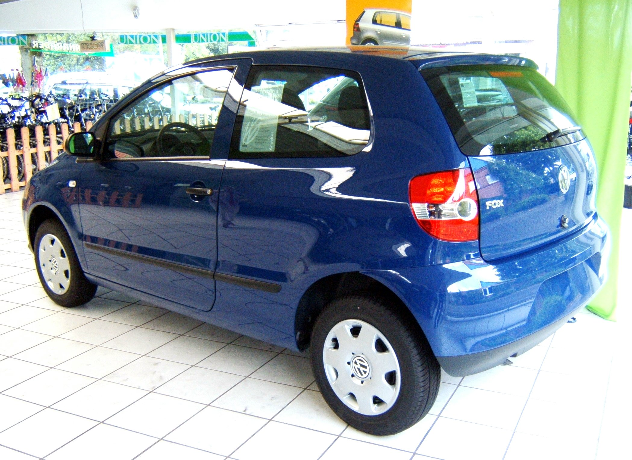 VW-Fox back.